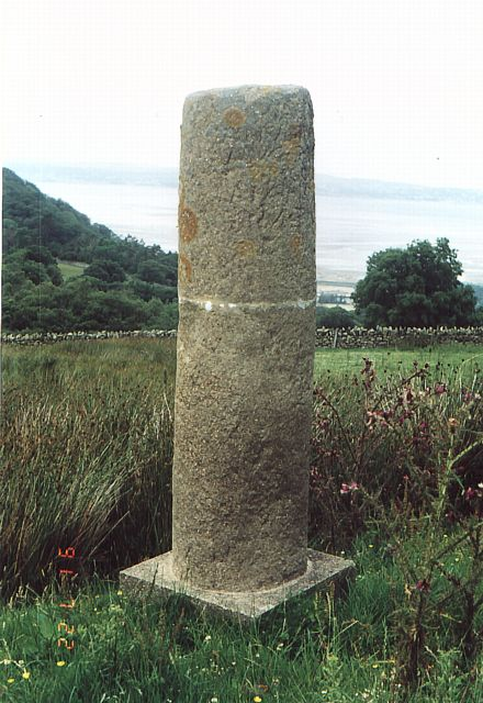 Roman Milestone, Near Llanfairfechan. A view of a replica Roman milestone found at Rhiwiau-uchaf Farm. The original, RIB 2265 (see here, is not 2266 - no mp), has been removed to the British Museum (P&EE 1883 7-25 1), gift of Major Henry Platt. The Romans probably passed this marker on their route to the Isle of Anglesey; the obvious crossing is visible in the background across Traeth Lafan (Lavan Sands). This crossing was still in daily use until the 1820's when Telford's suspension bridge was opened. Imp(erator) Caes(ar) Trai/anus Hadrianus / Aug(ustus) p(ontifex) m(aximus) tr(ibuniciae) p(otestatis) V / p(ater) p(atriae) co(n)s(ul) III / a Kanouio / m(ilia) p(assuum) VIII